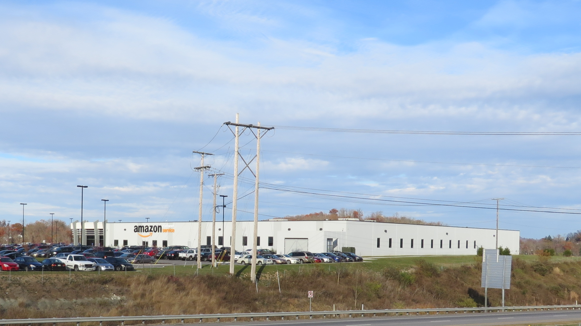 Customer Service Center, 500 Kinetic Drive, Huntington, West Virginia. The road in the foreground is Interstate 64.